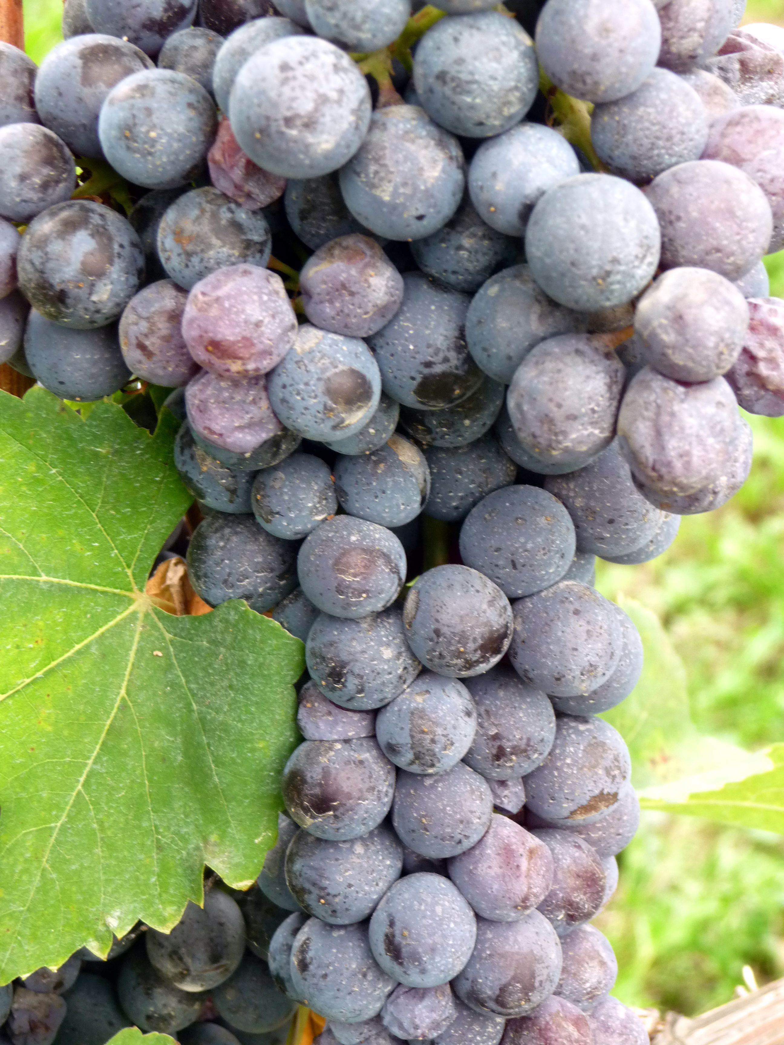 Close up of the Piedmont grape variety Nebbiolo